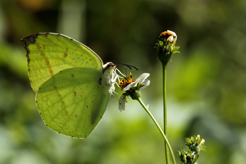 Dercas lycorias ( PLAIN SULPHUR) one of the Rarest butterflies of india,This photograph must be the first of this species from India from Lama Camp,Eaglenest WLS ,Arunachal Pradesh